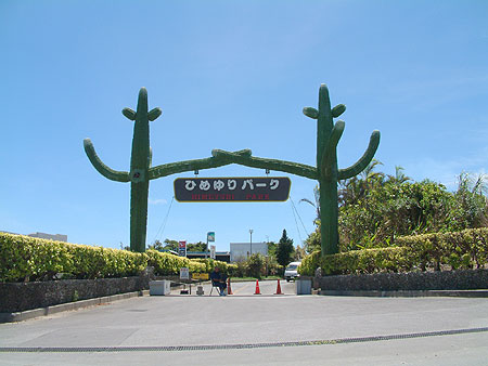 Former Himeyuri Park